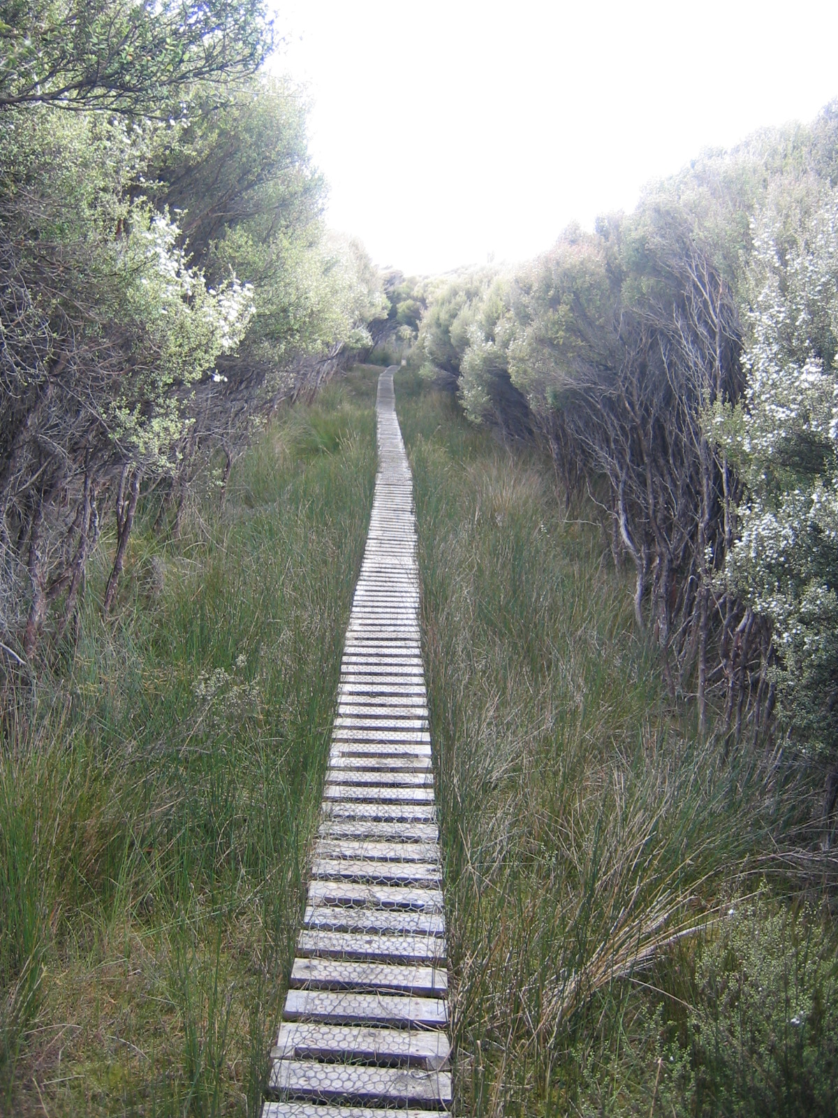 Boardwalk between Freshwater Landing and Mason Bay; Kanuka trees North-West Circuit and Southern Circuit, Rakiura National Park, Stewart Island, New Zealand